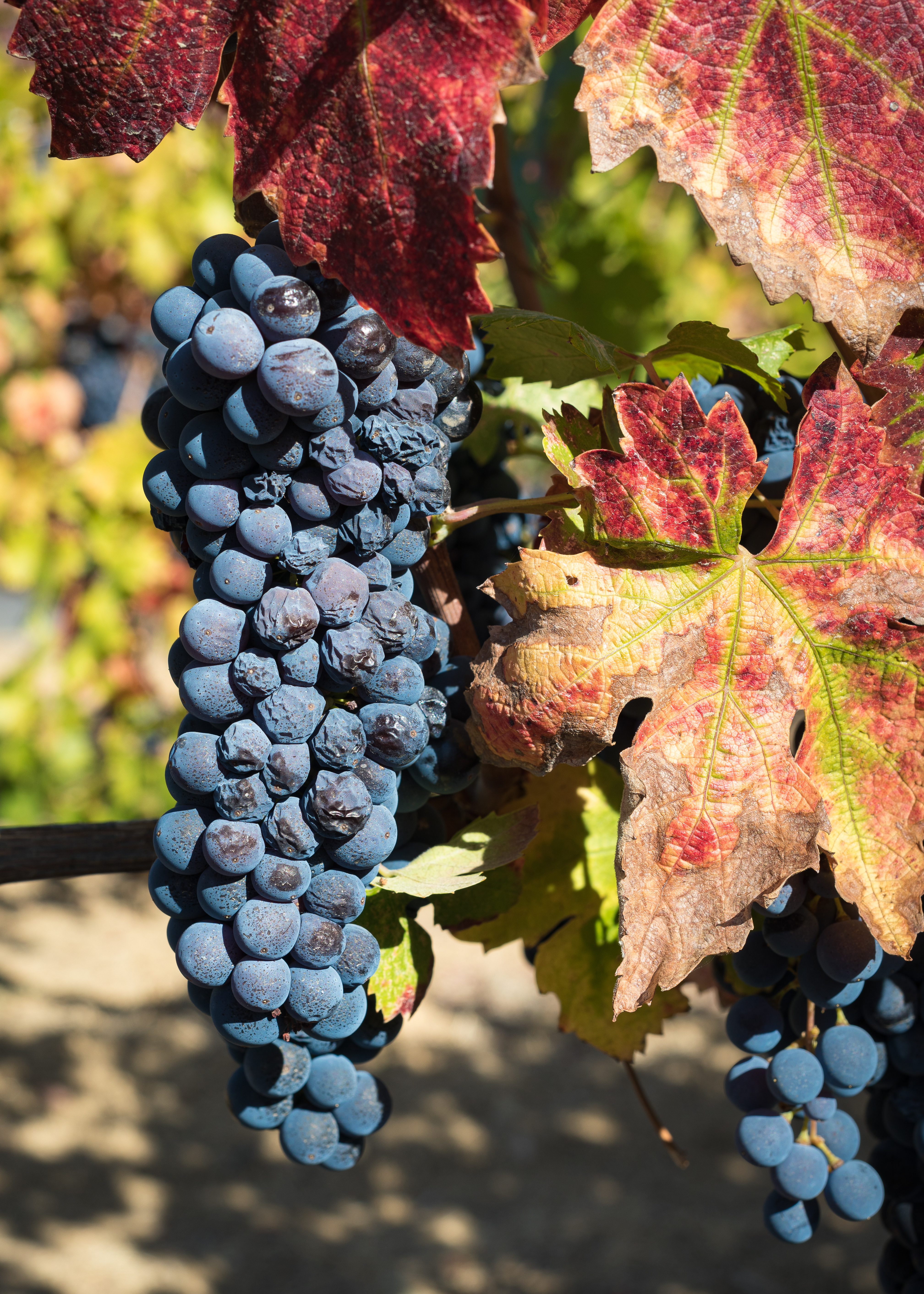 Zinfandel grapes ripening on the vine in Dry Creek Valley, Sonoma County, California